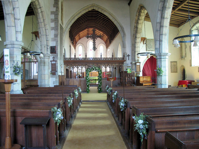 St John the Baptist, Harrietsham, Kent